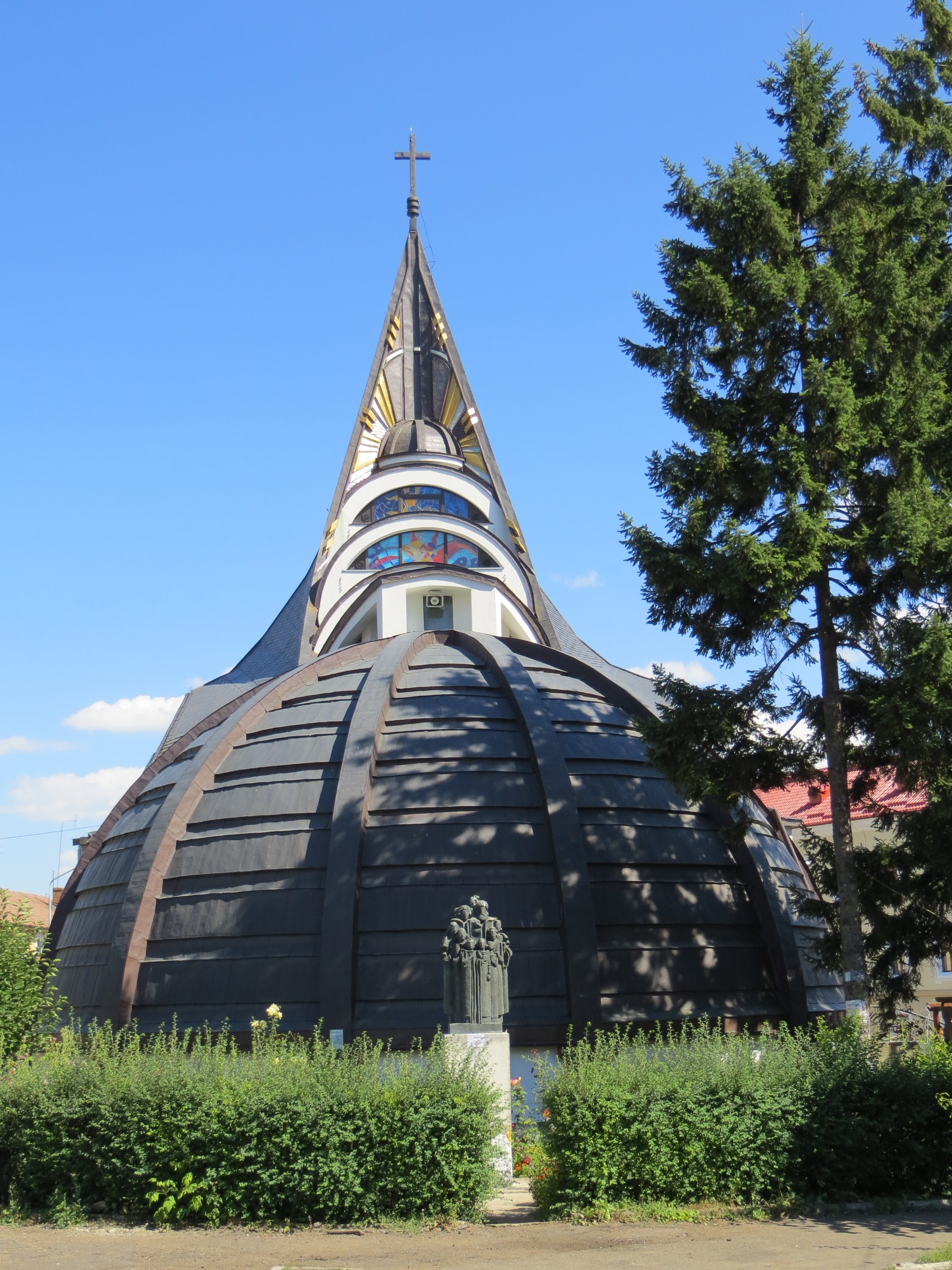 Church of the Birth of Virgin Mary-In Memoriam in Suceava and the statuary group of Brâncoveanu Family.